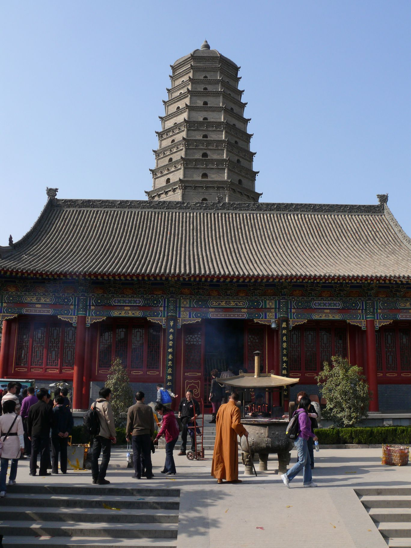 Famen temple in Shaanxi province (China)